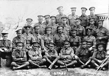 The Staff of the Royal Australian Navy Bridging Team, circa 1915. The original file is located at